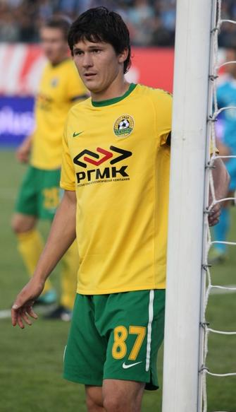 Ilya Maksimov with FC Kuban Krasnodar.